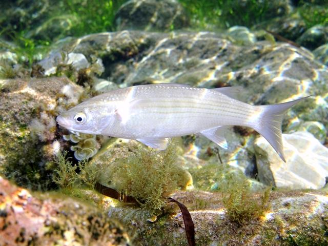 Chelon labrosus photographed in Minorca Island (Spain).